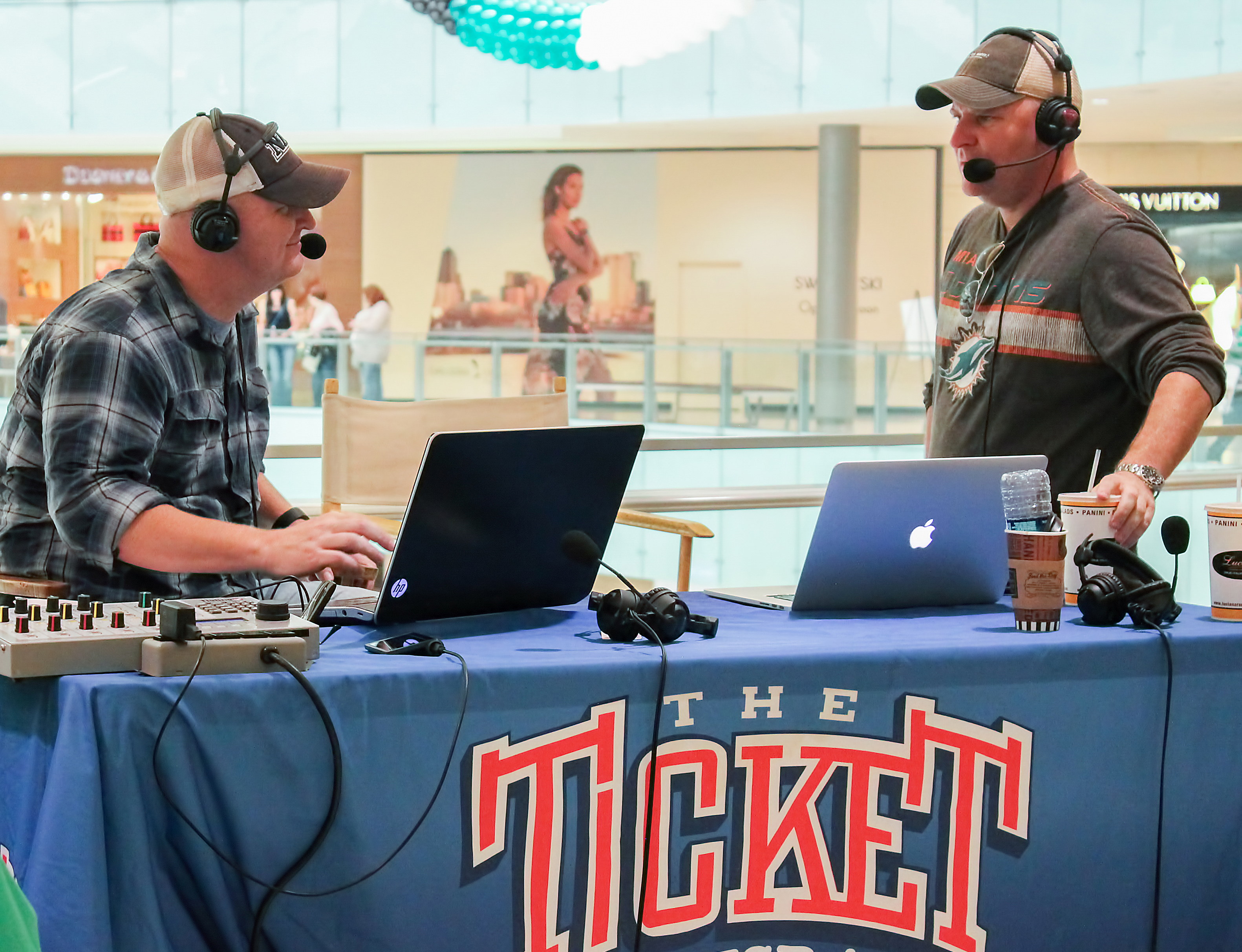 Dallas Stars Ice Breaker 2014 Sept 13, 2014 Galleria Dallas